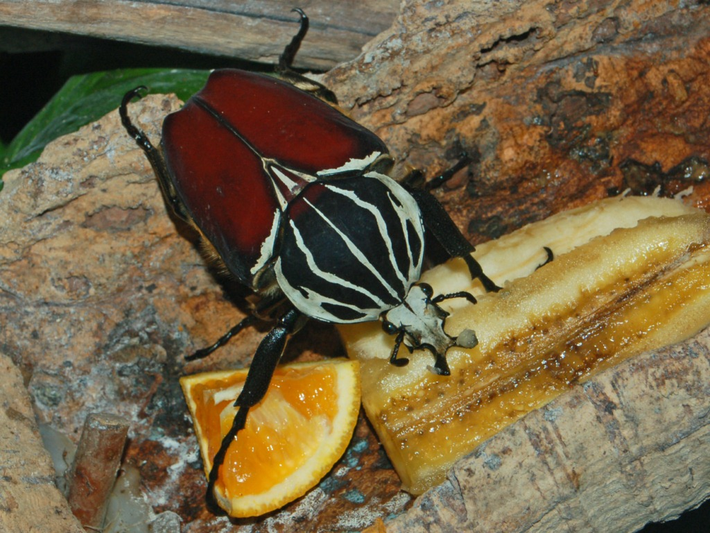 Male of Goliathus goliatus at the Montreal Insectarium